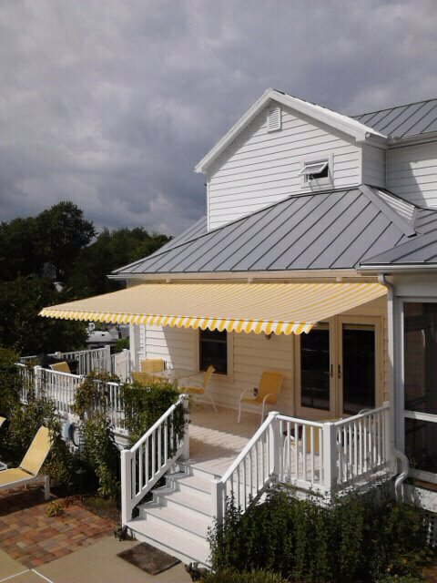 Retractable Awning Installed by PYC Awnings in Bozman, Md